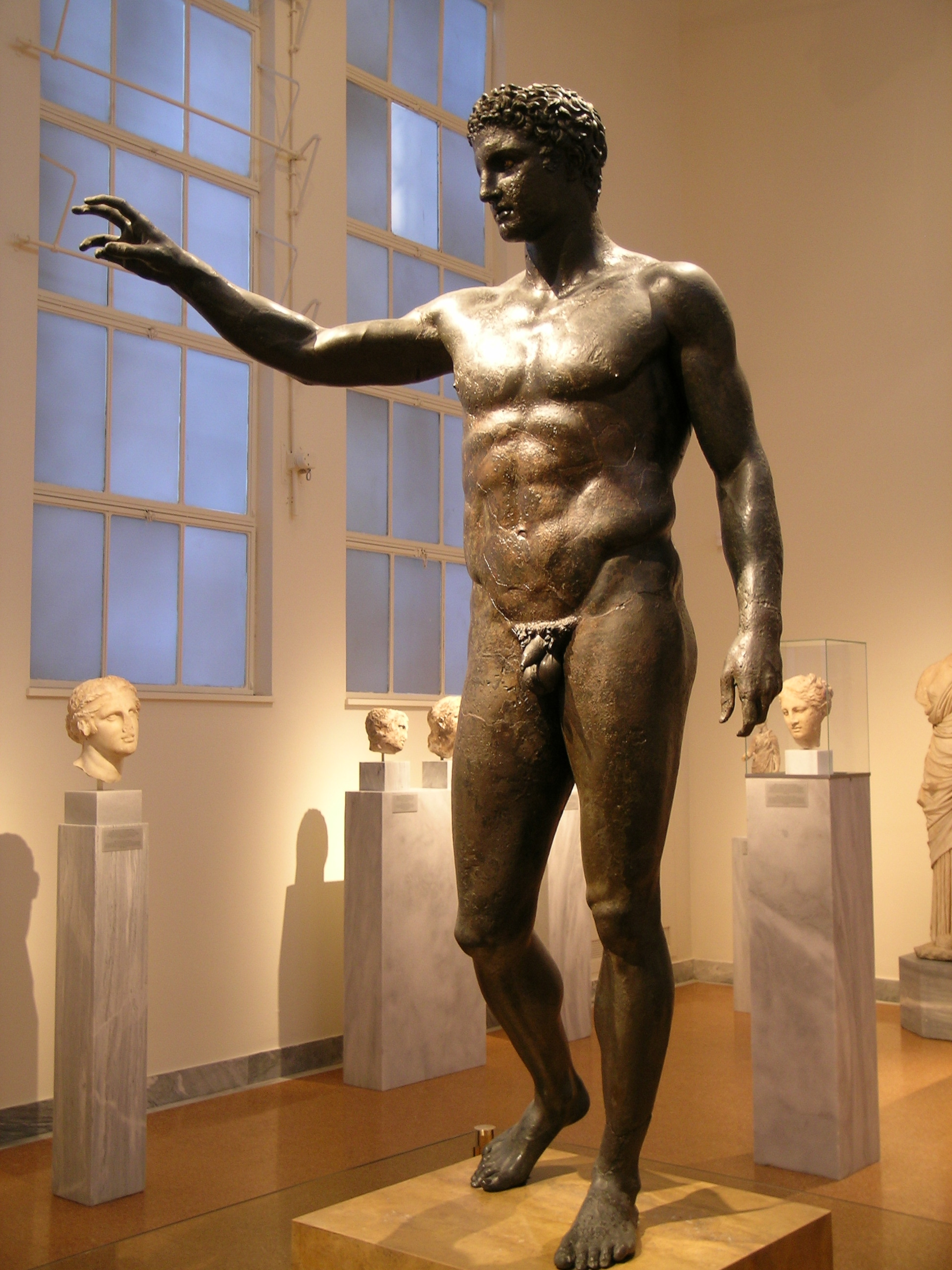 Front view of bronze statue recovered from Antikythera shipwreck in 1901, possibly depicting Paris or Heracles. Statue on display in National Archaeological Museum, Athens, Greece.